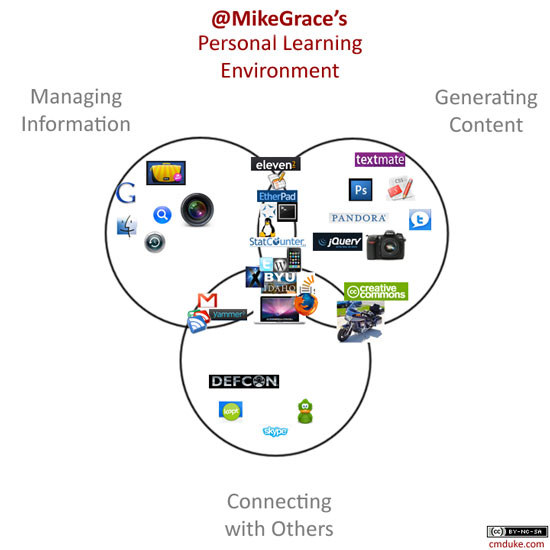 MikeGraces_PLE